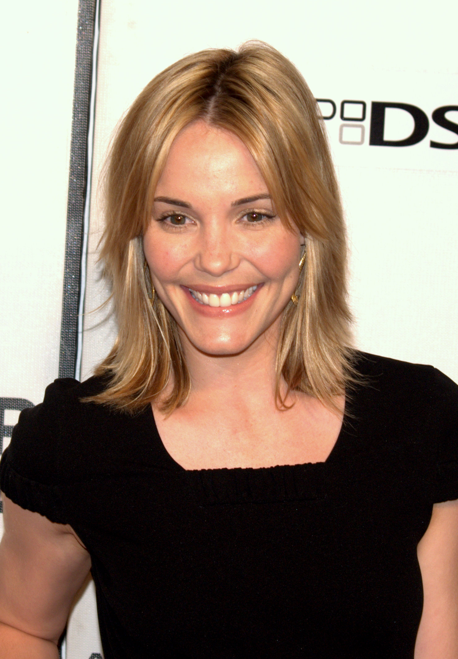 Leslie Bibb at the 2009 Tribeca Film Festival premiere of Moon.